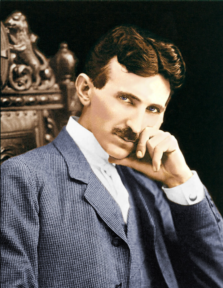 Nikola Tesla color